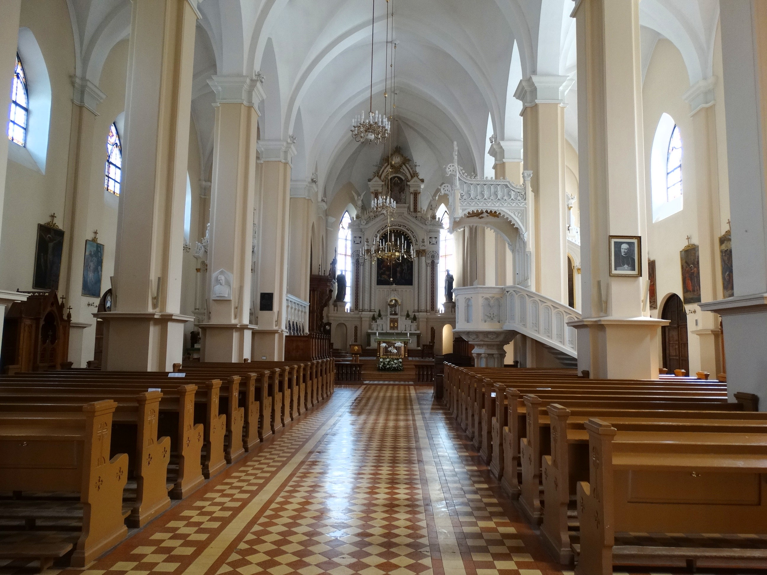 Cathedral, Kaišiadorys, Lithuania